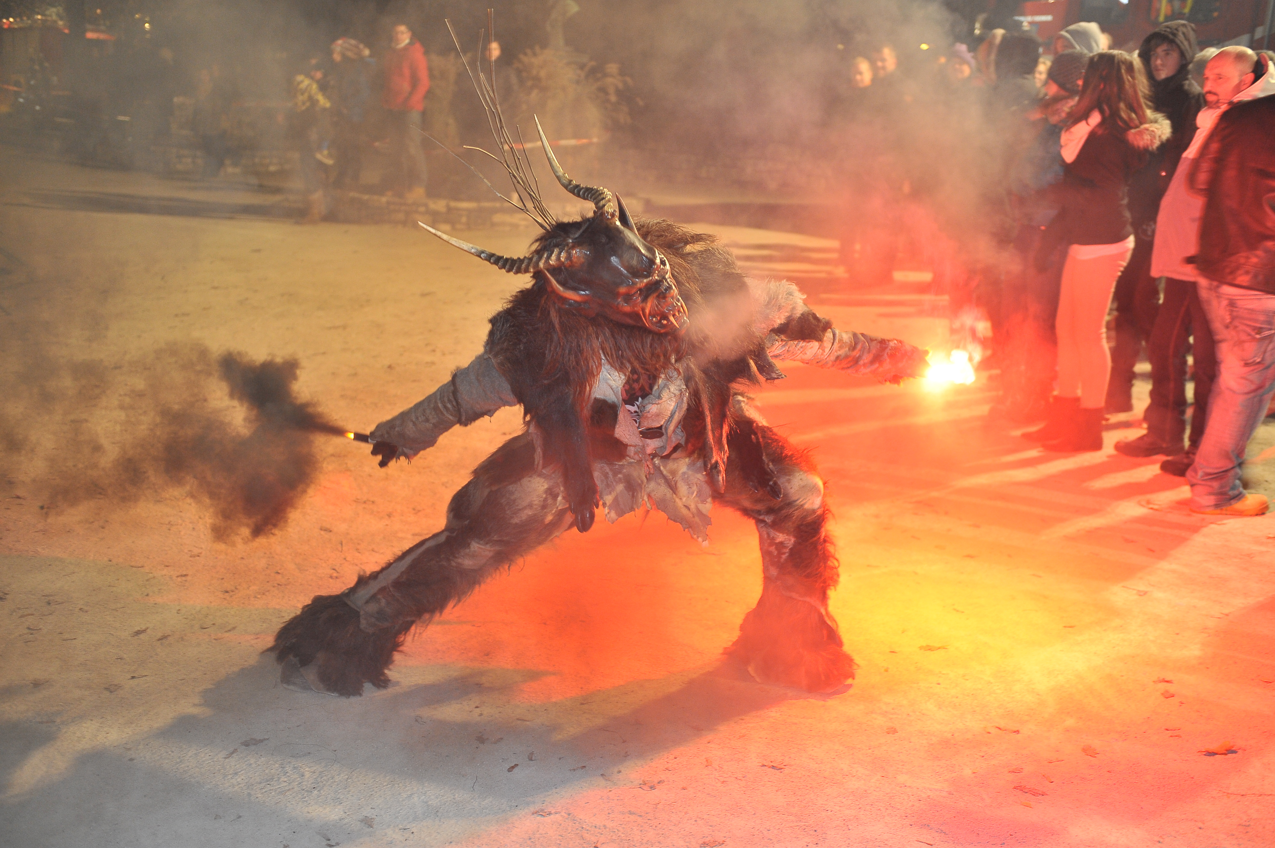 Krampus parade on the Johannes-Brahms-Promenade, municipality Poertschach on the Lake Woerth, district Klagenfurt Land, Carinthia / Austria / EU